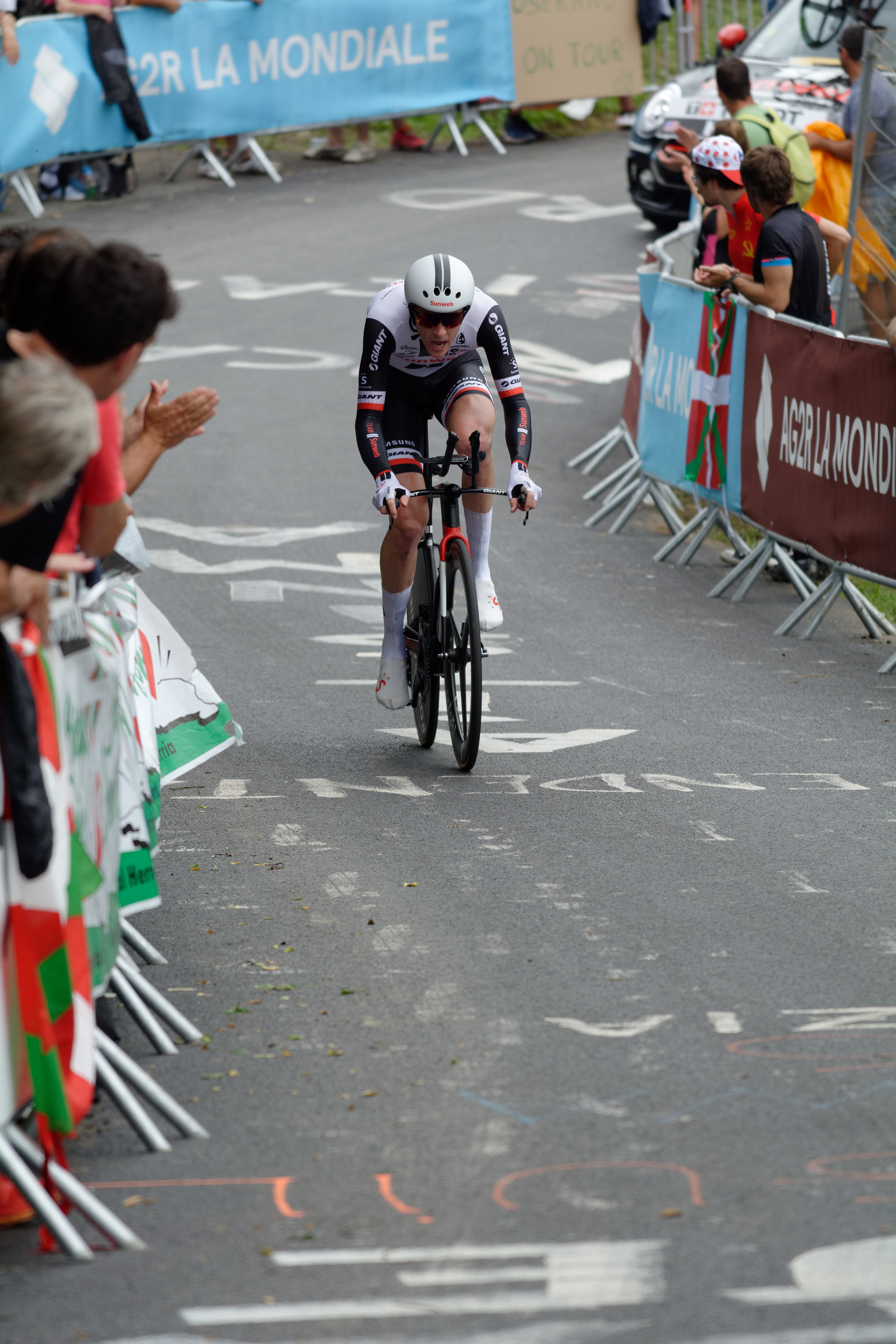 2018 Tour de France